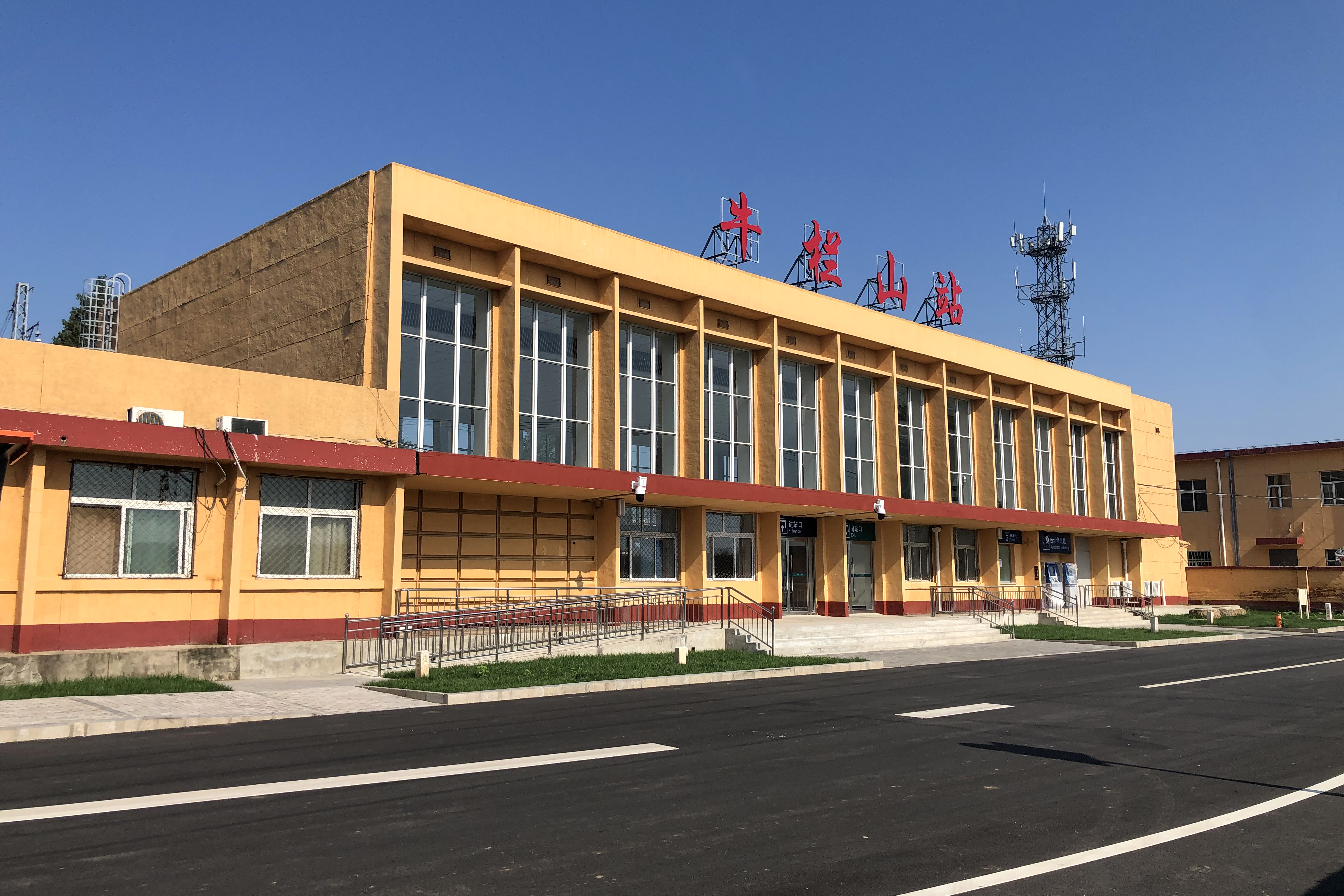 Few trains stop here.